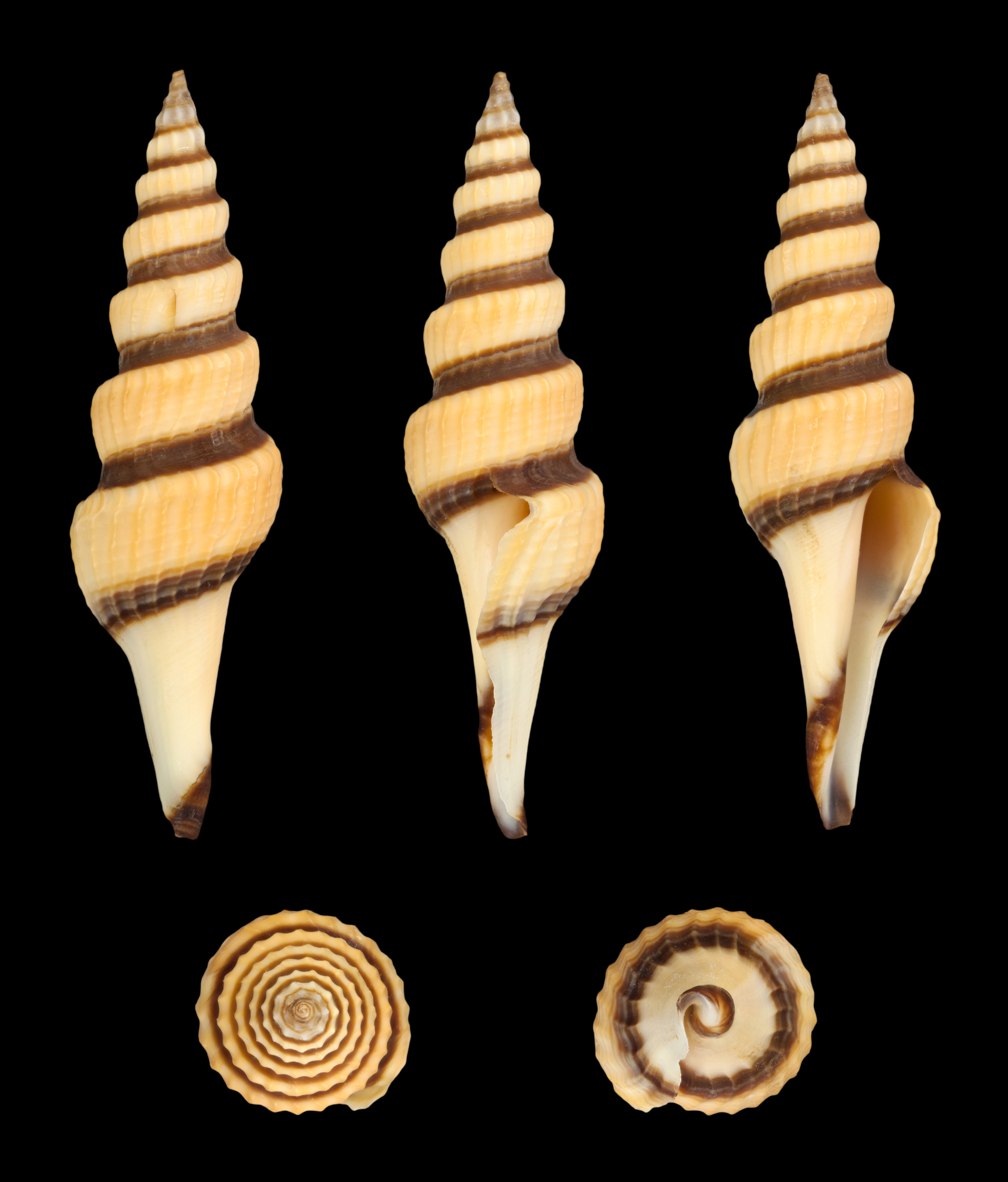 Fusiturris similis (Bivona Ant. in Bivona And., 1838) ; Length 4.9 cm; Originating from Port-Gentil, Gabon. Shell of own collection, therefore not geocoded.